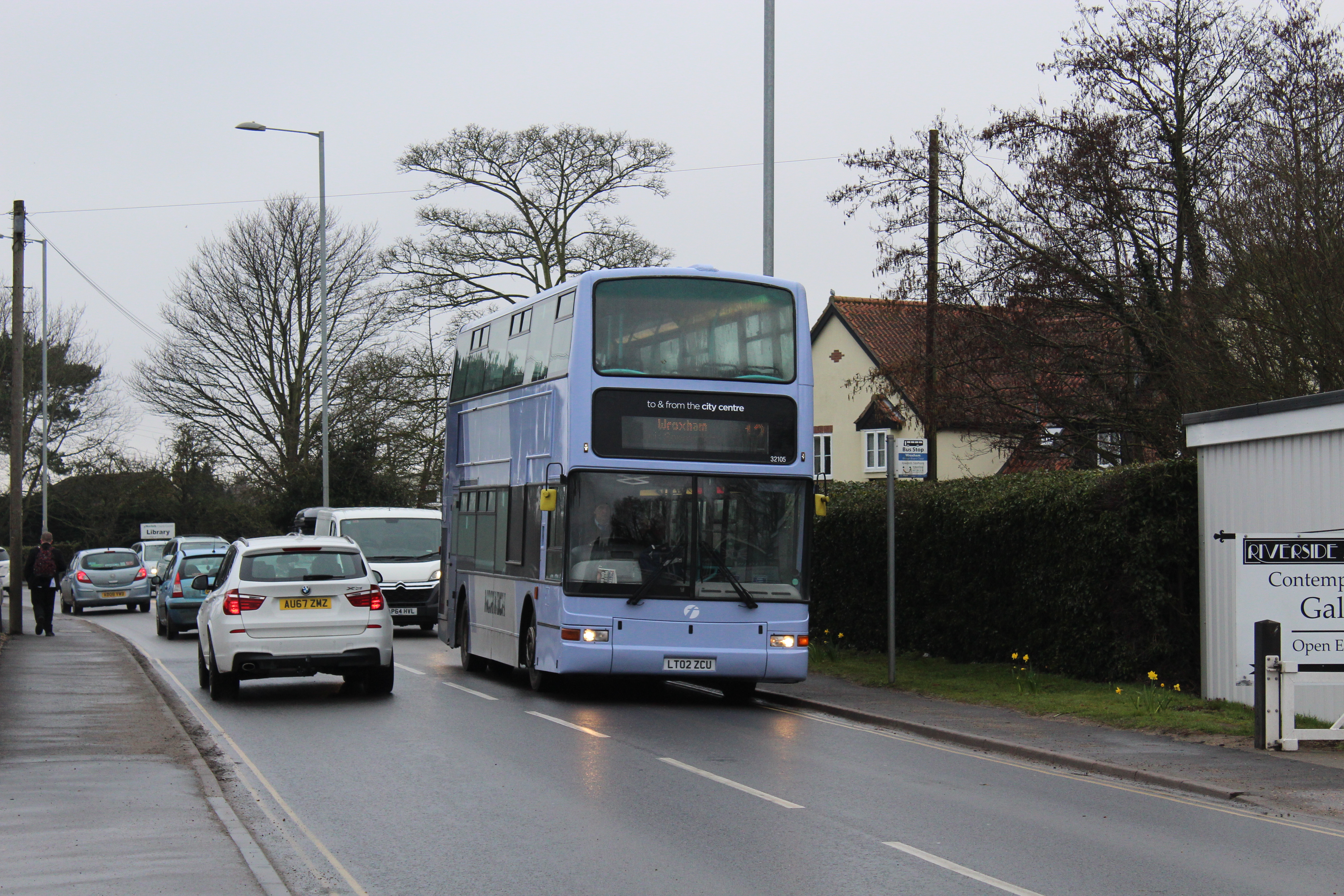 A Volvo B7TL/Plaxton President carrying the generic lilac-fronted Network Norwich livery in Wroxham, Norfolk